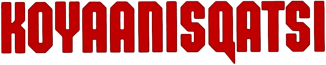 Koyaanisqatsi Logo.